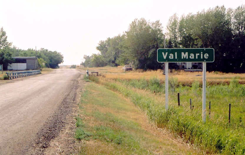 Val Marie, Saskatchewan Road Sign from West